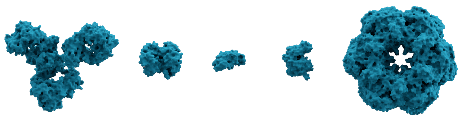 Molecular surface of several proteins showing their comparitive sizes. From left to right are: Immunoglobulin (IgG) (PDB 1IGY), Hemoglobin (PDB 2DHB), Insulin (PDB 4INS), Adenylate Kinase (PDB 1ZIN), Glutamine Synthetase (PDB 1FPY).